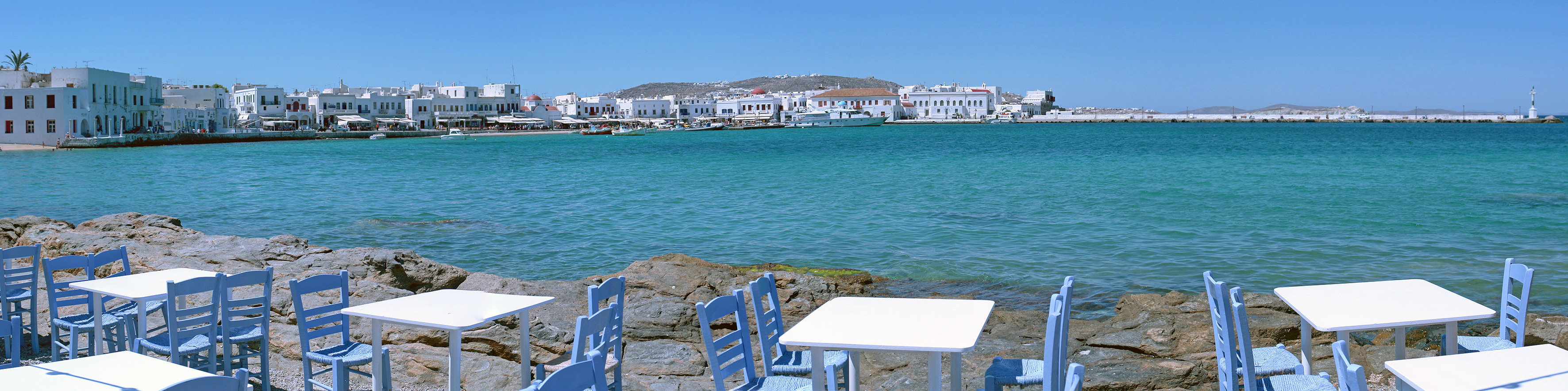 Mykonos, townview